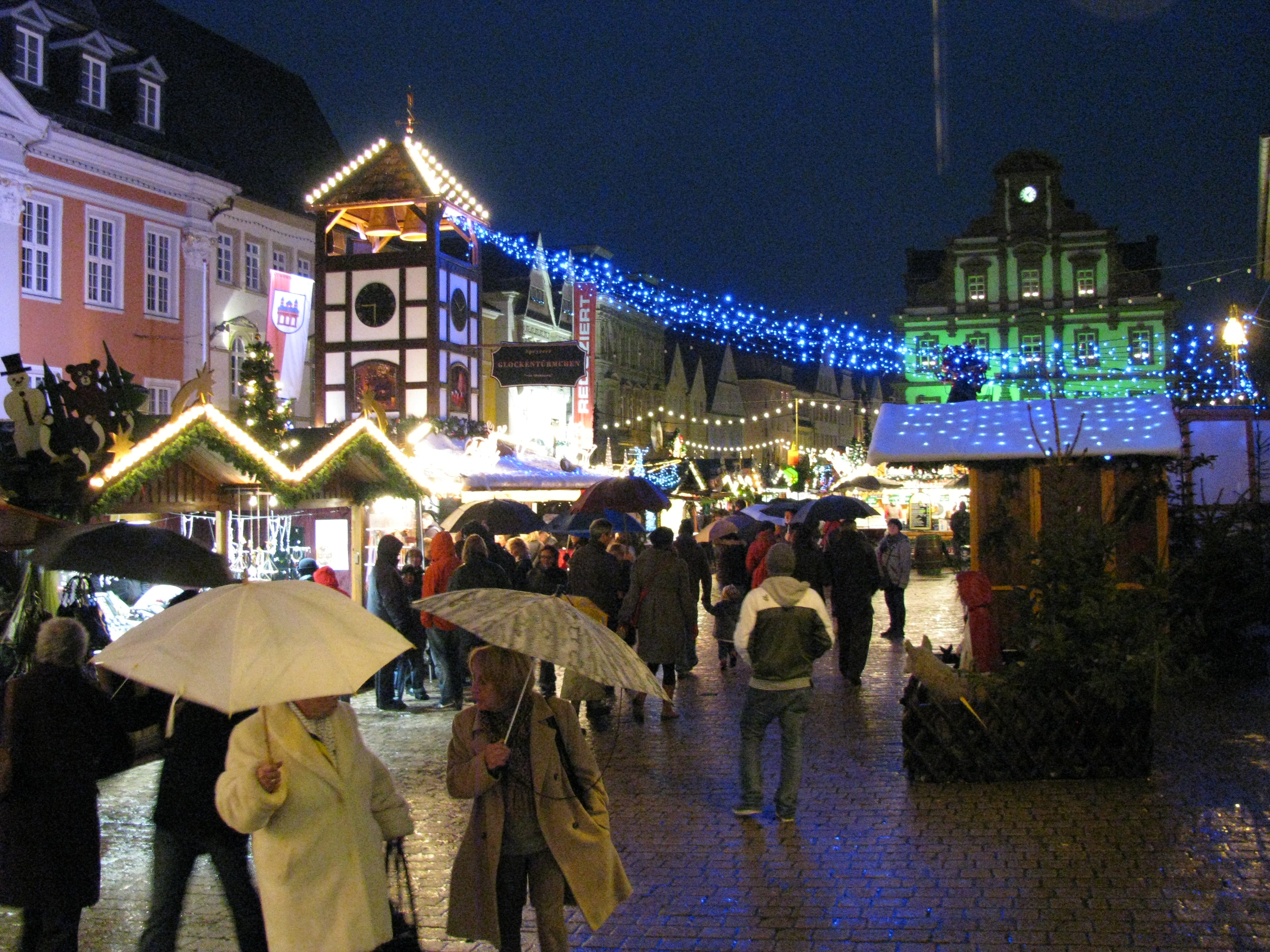 Christmasmarket in Speyer 2009